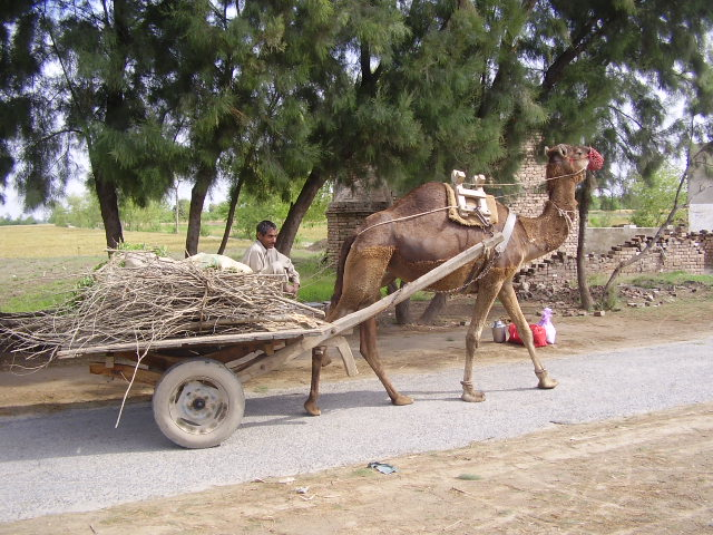 Camel cart used in the village of Pakistan for carrying load.